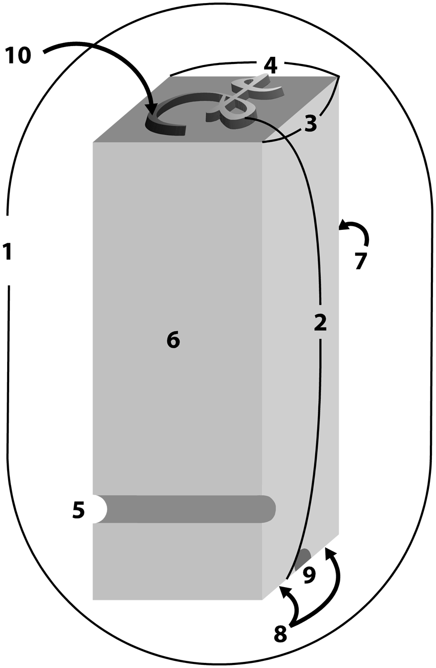 The founded Movable type which was invented by Gutenberg. body / shank / stem height depth / body size (=EM) width neck front / belly back foot groove letter face In order to know terms around letter face, see Bevel image.